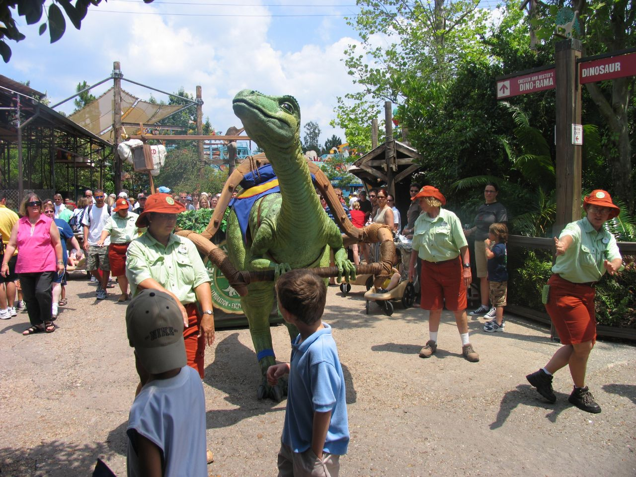 The first free-standing animatronic at Disney. These pics aren't really the greatest at showing exactly how damned cool it is to see this walking next to you.